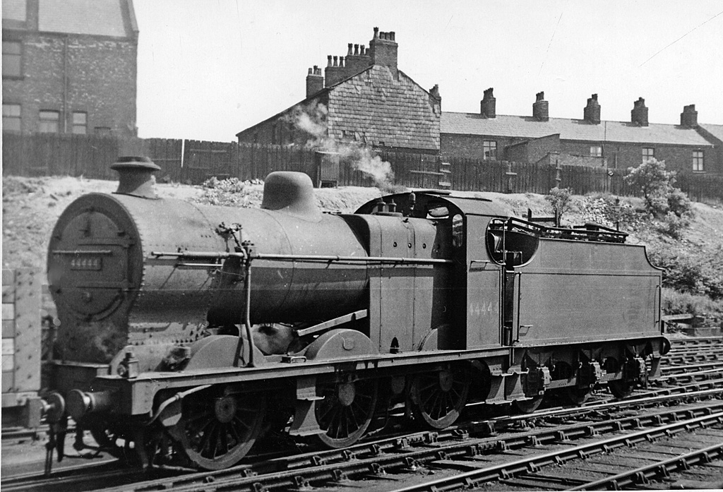 An ordinary locomotive celebrated by its unique number, seen at Stockport. View SE, LMS 4F 0-6-0 No. 44444 is shunting just south of Stockport (Edgeley) station, which was on the main ex-London & North Western line from Manchester (London Road) to Crewe, also Macclesfield and Stoke-on-Trent, also Buxton. No other British Rail locomotive had a number with five identical digits.